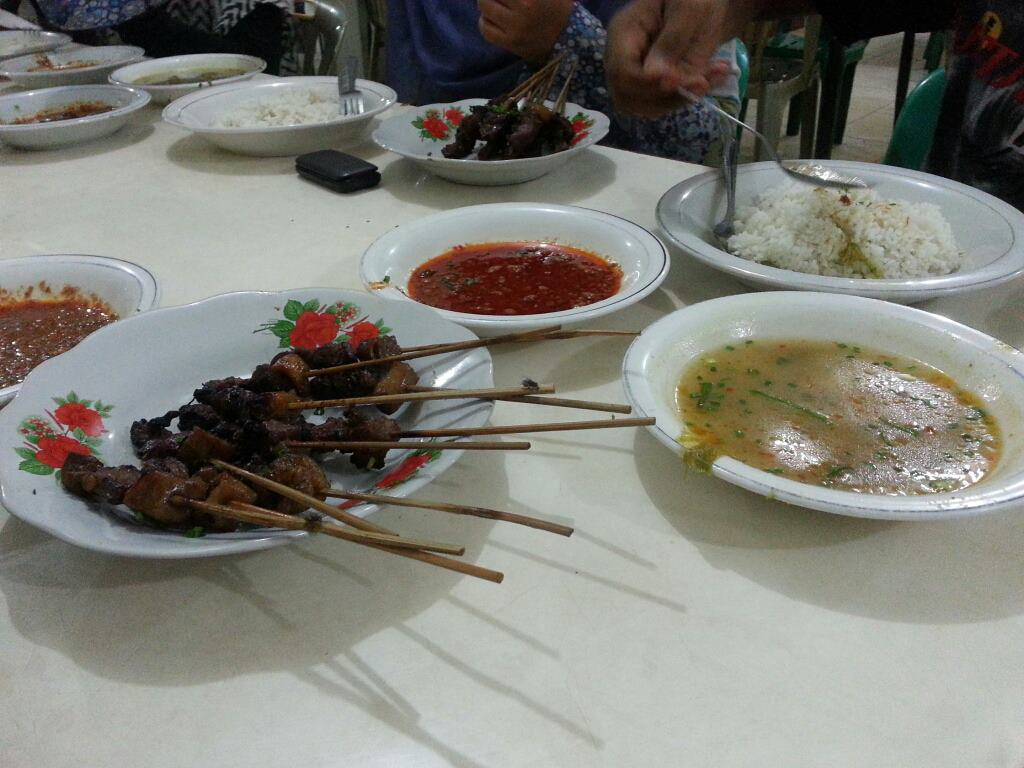 Lamb satay, served with rice, soup, and peanut sauce in a restaurant in Bireuen regency, Aceh.